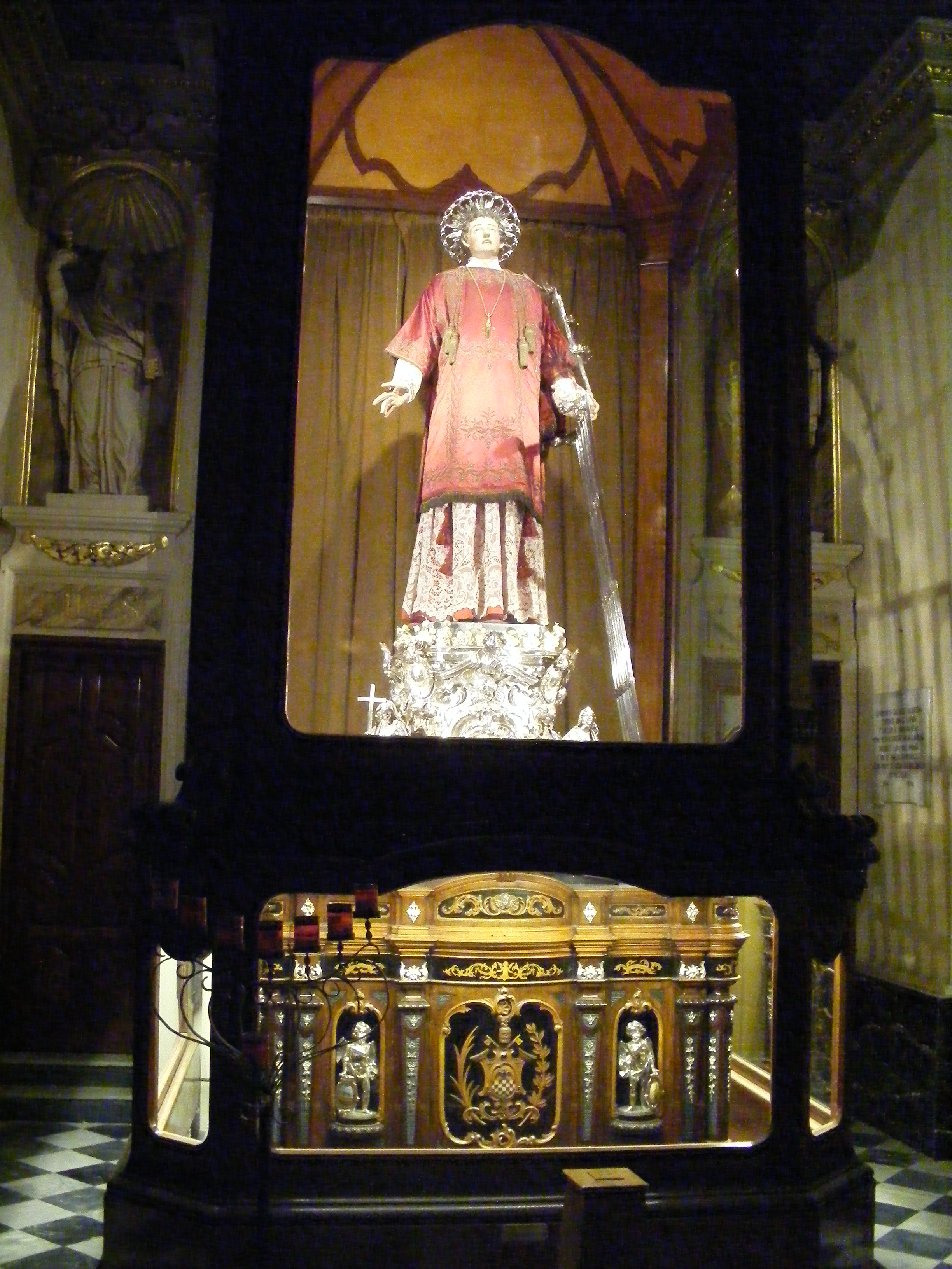 St. Lawrence statue, St. Lawrence church, Birgu, Malta